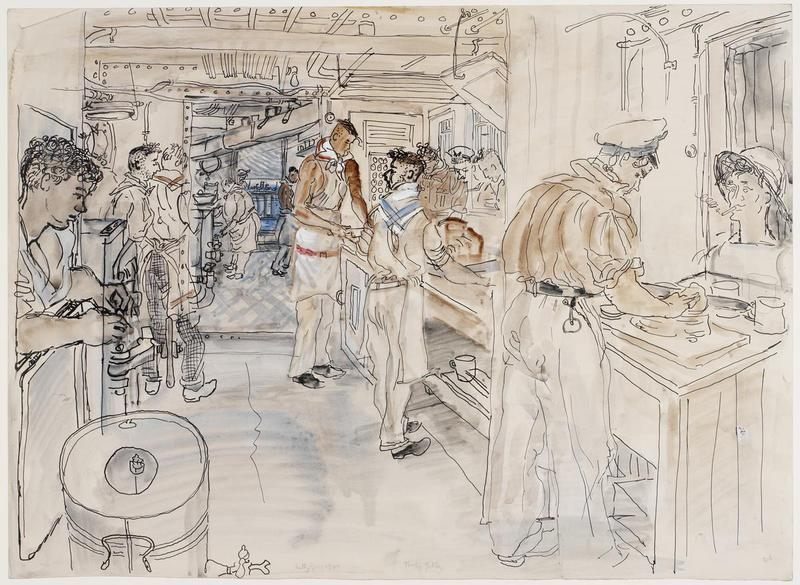 Gross began an eight-week voyage on board 'Highland Monarch' in late November 1941. The ship sailed from Avonmoth to Suez via Sierra Leone, the Cape, the Indian Ocean and Aden. He finally made his base at Cairo in early 1942. On board the ship, Gross completed his 'Convoy Series', depicting mess decks, parades, scenes of instruction and entertainment on board ship. image: A kitchen on board a ship with a group of officers preparing meals. Other officers peer through hatches and watch the preparation.